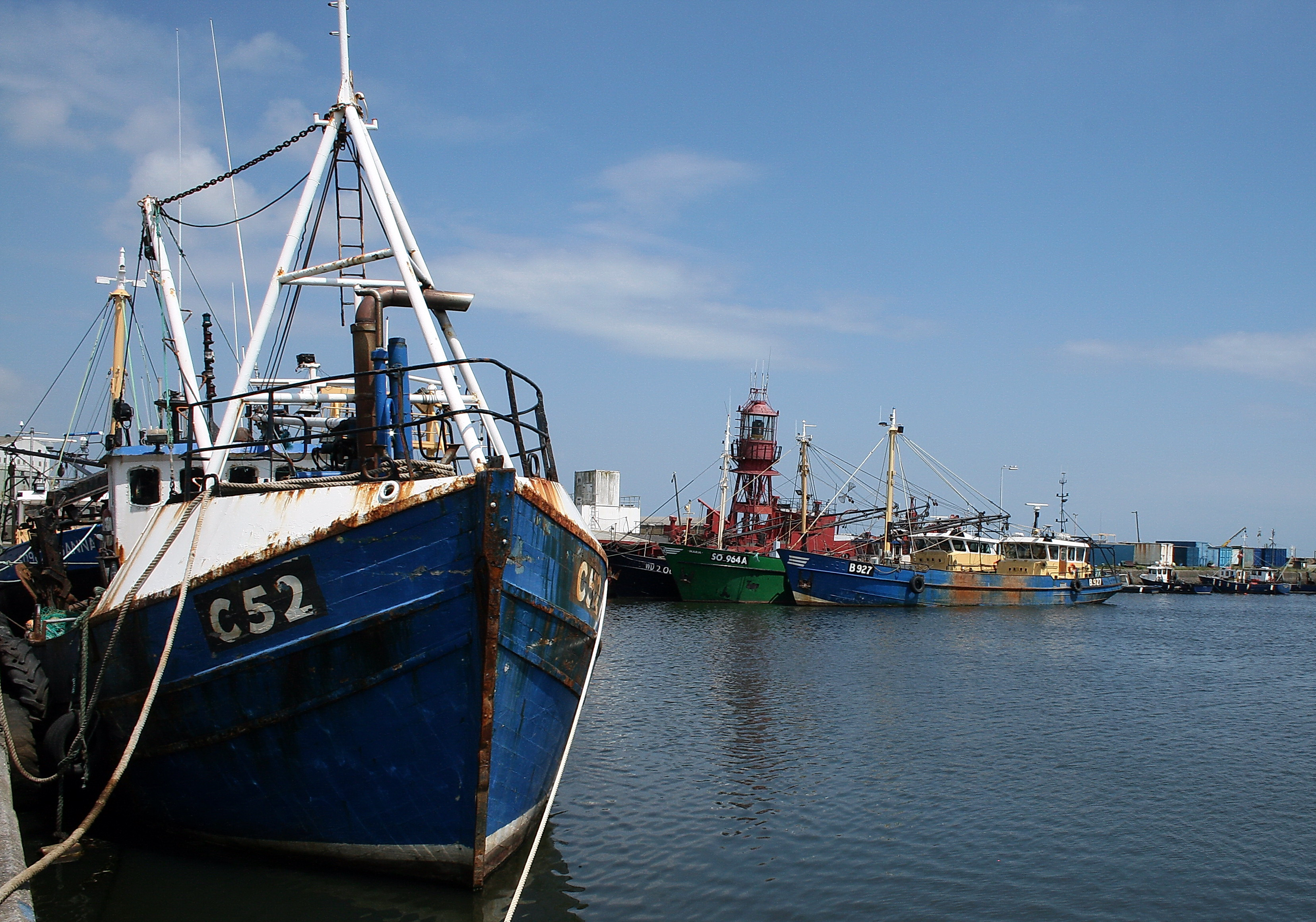 Arklow Port, County Wicklow, Ireland, with SO-964A Maria, B927 Drie Gebroeders and lightship Skua